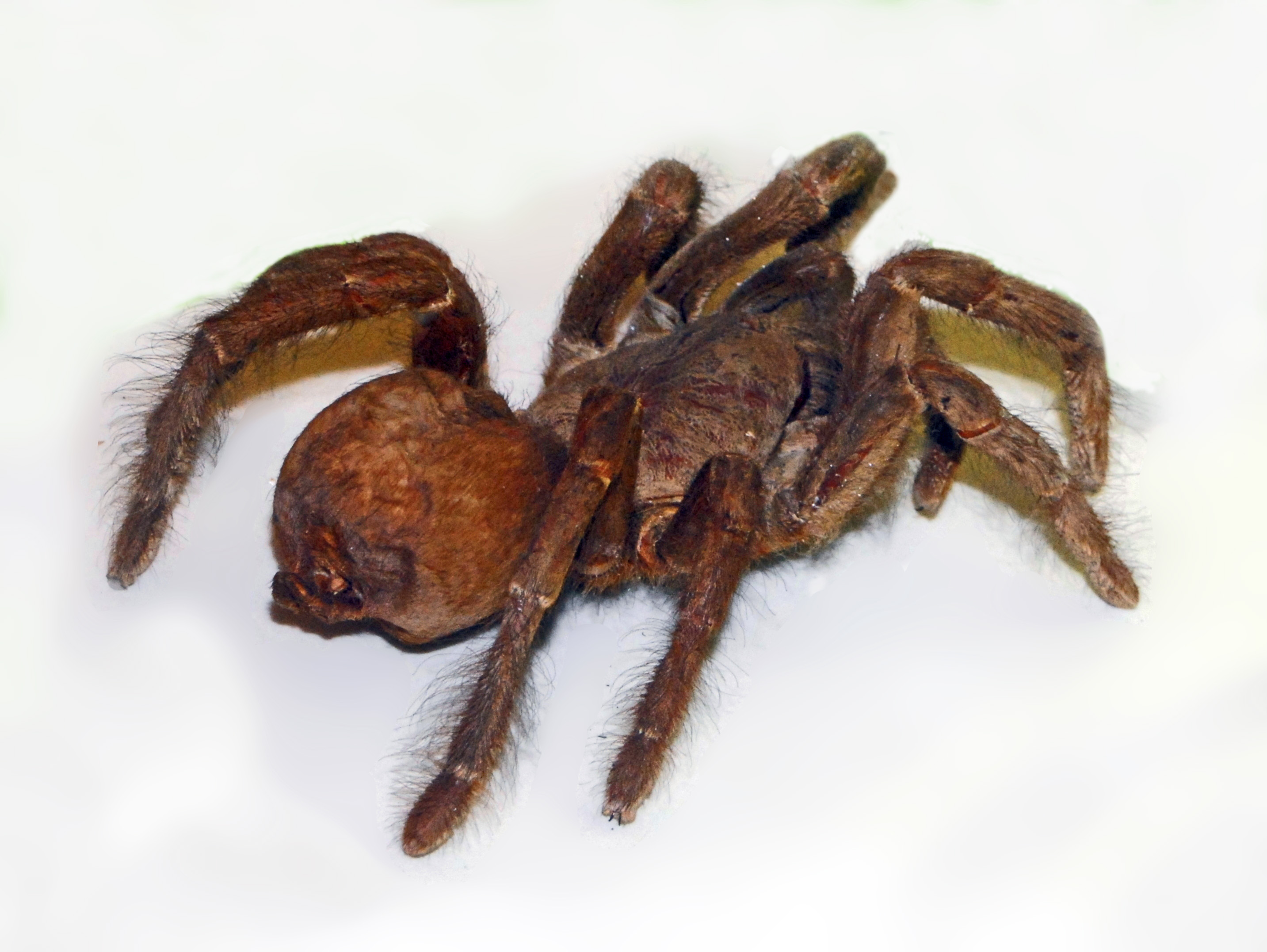 Phoneyusa lesserti from Gabon at the Museo Civico di Storia Naturale di Milano